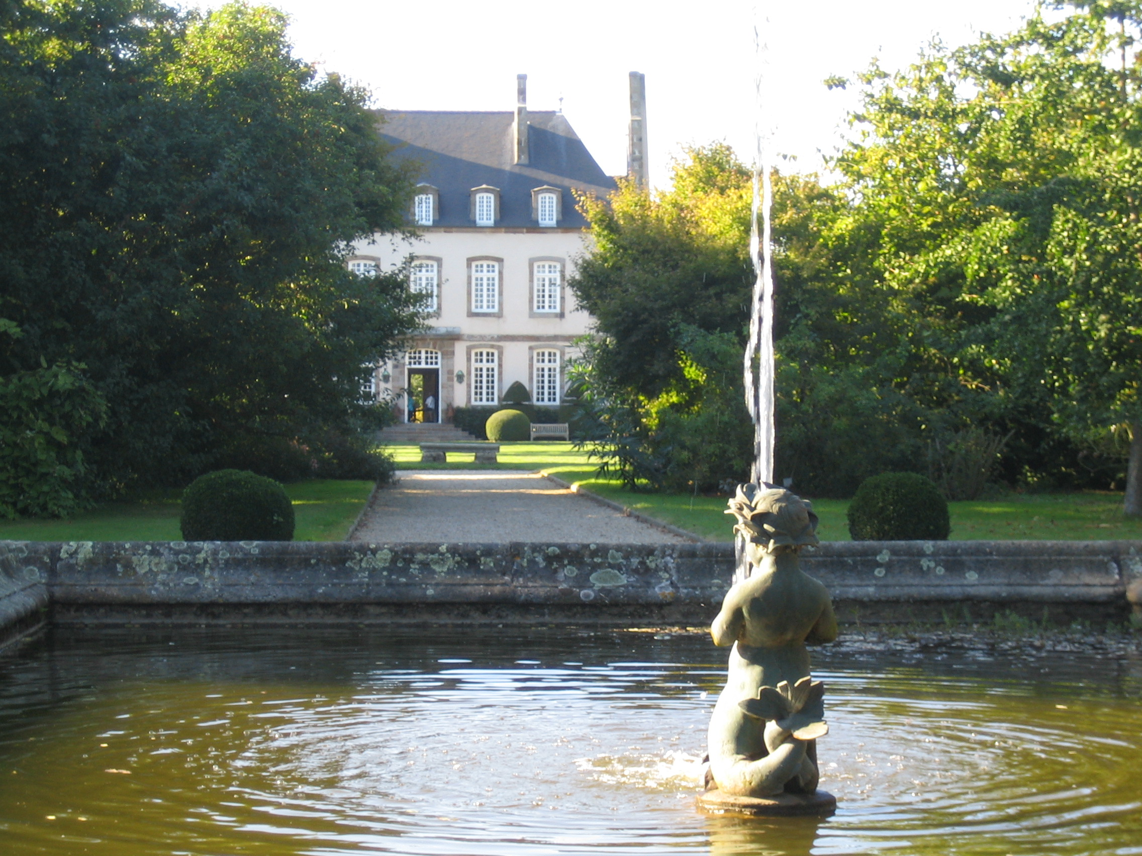 garden of la ville bague